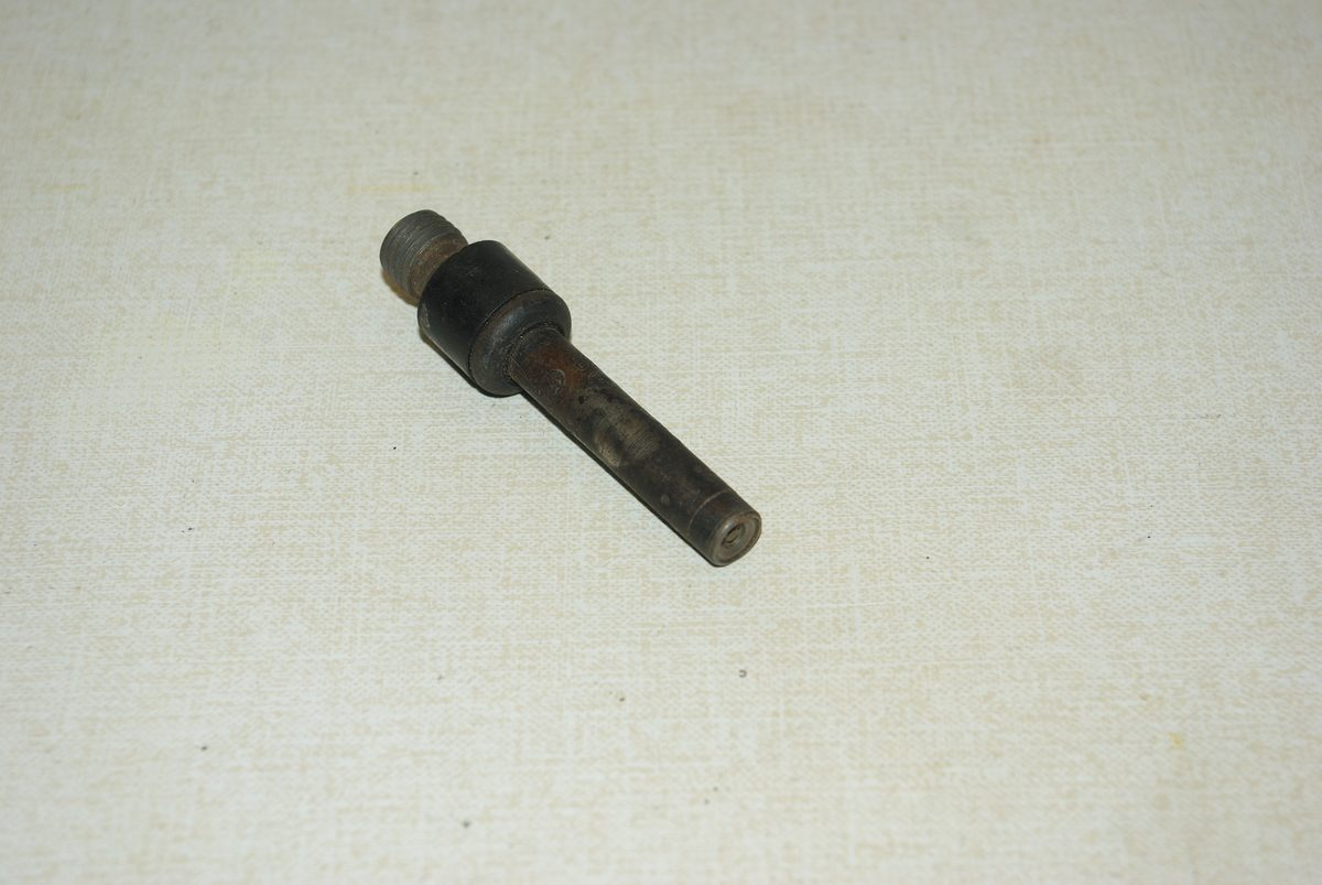 K-Jetronic injector 0 437 602 015